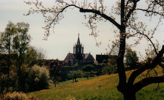 Photo of Cistercian church at Bebenhausen, just outside Tübingen in Germany.